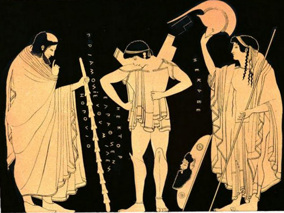 Hector with his parents